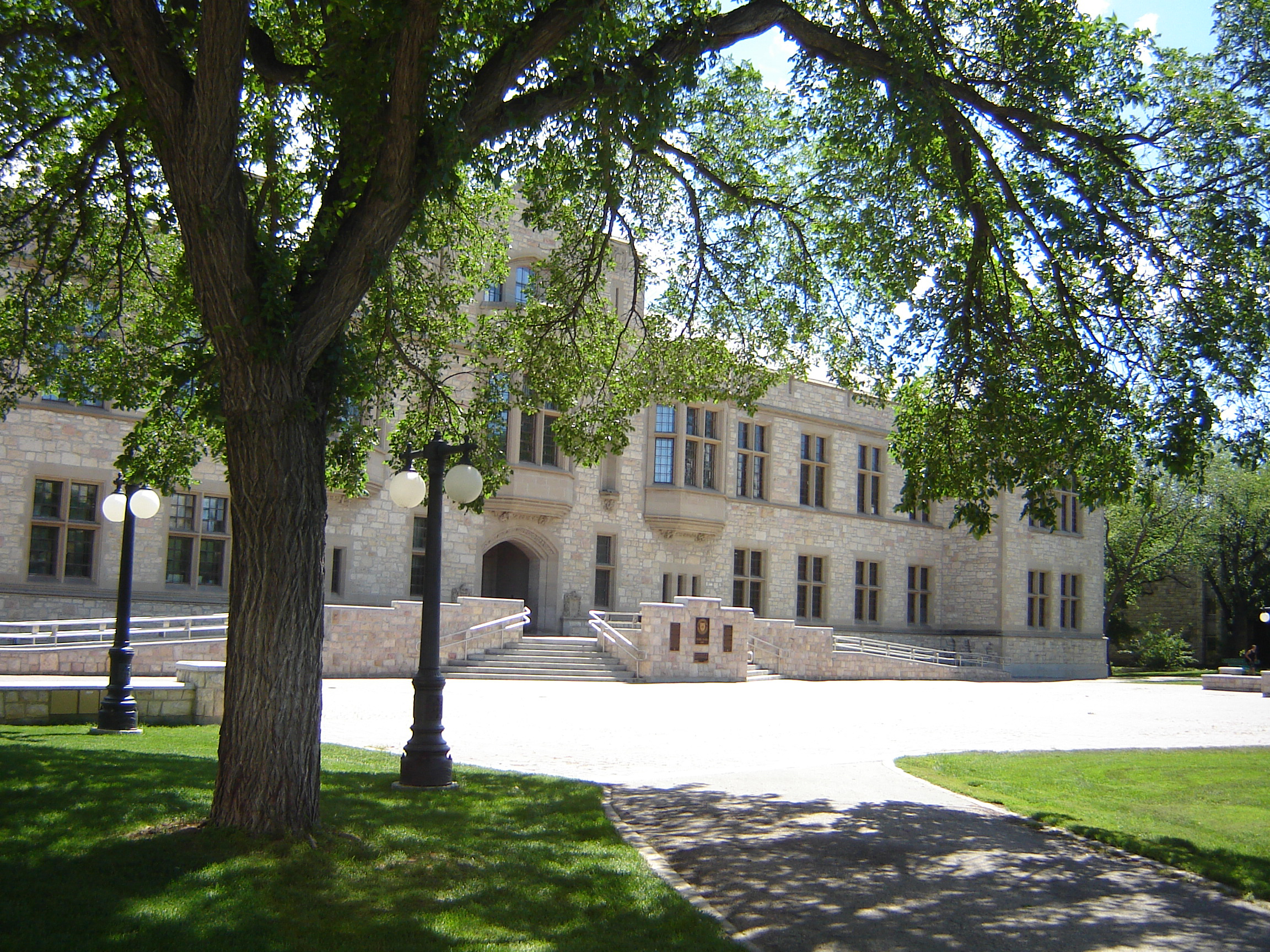 College Building U of S Saskatoon Saskatchewan Canada